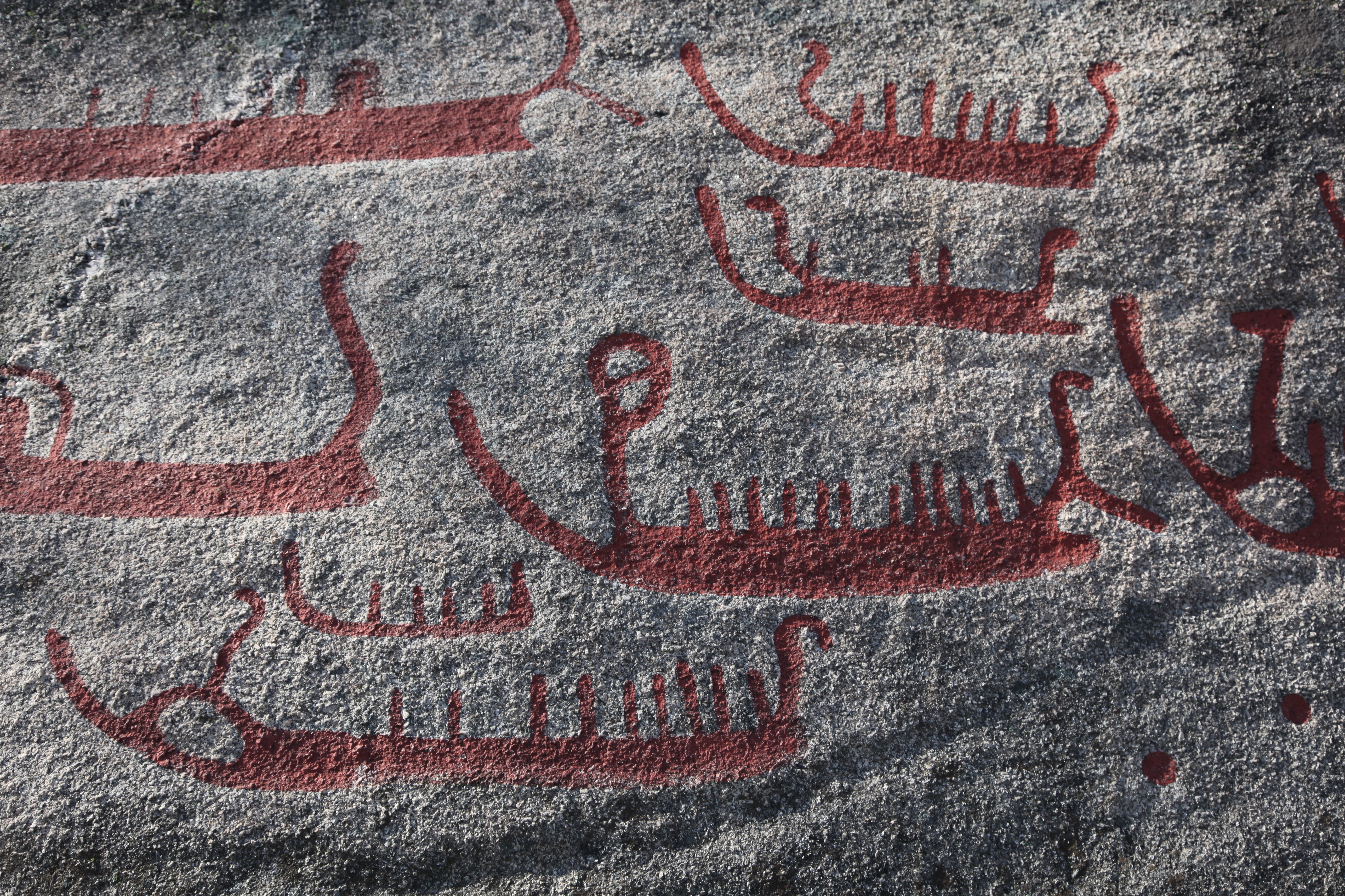 Rock carvings from the Hornes field in Østfold, Norway